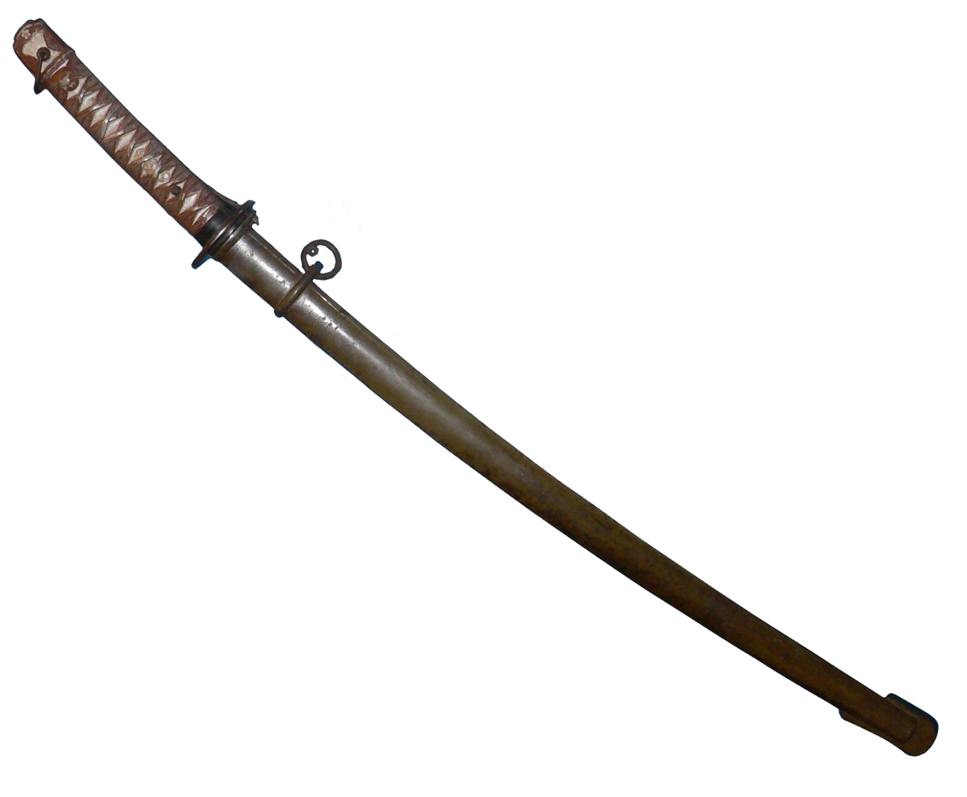 Japanese sabre of the second world war. Machine steel, industrial fabrication, with embossed and painted handle to look like a traditional tsuka. The scabbard is of Western style (by opposition to a traditional saya)